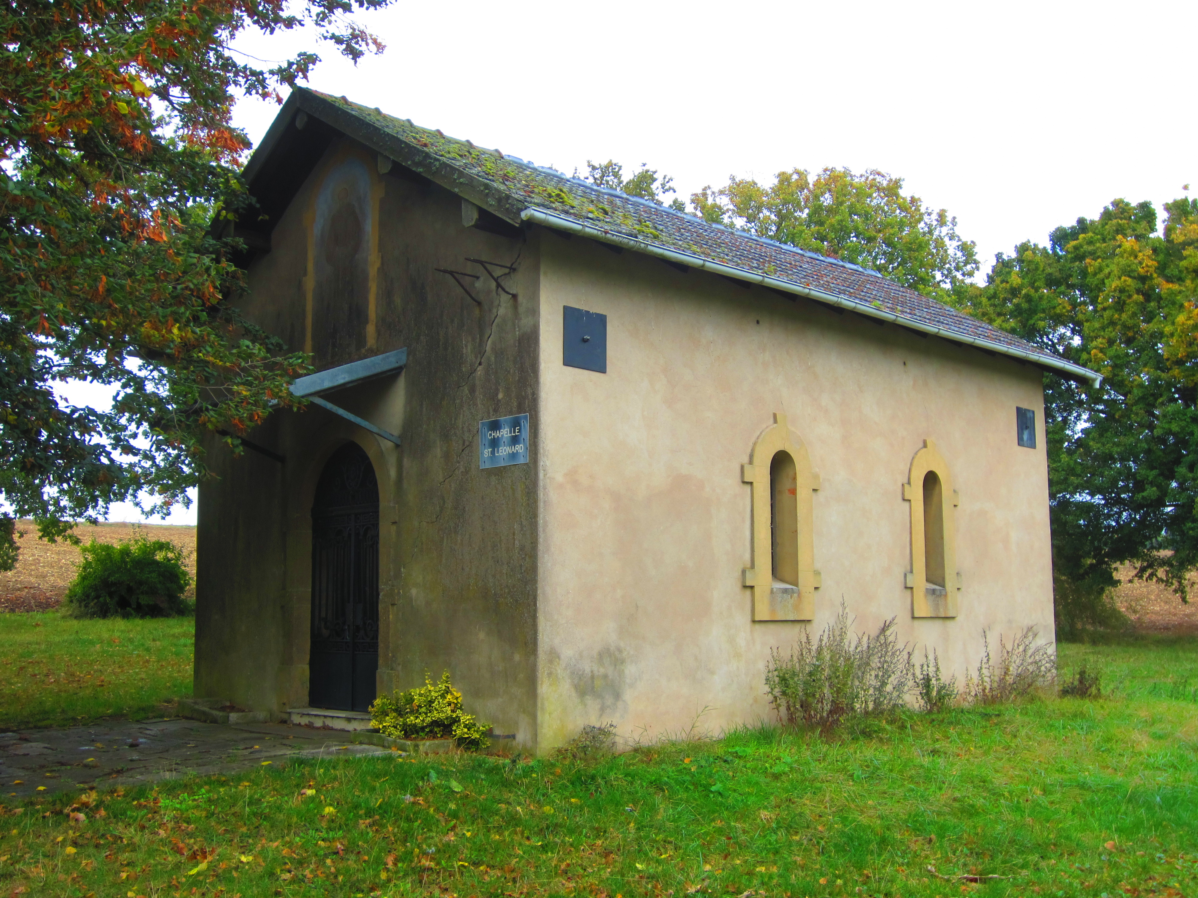 Dorviller chapel